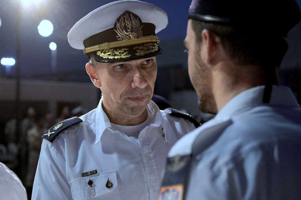 Commander of the Israeli Navy general Eli Sharvit